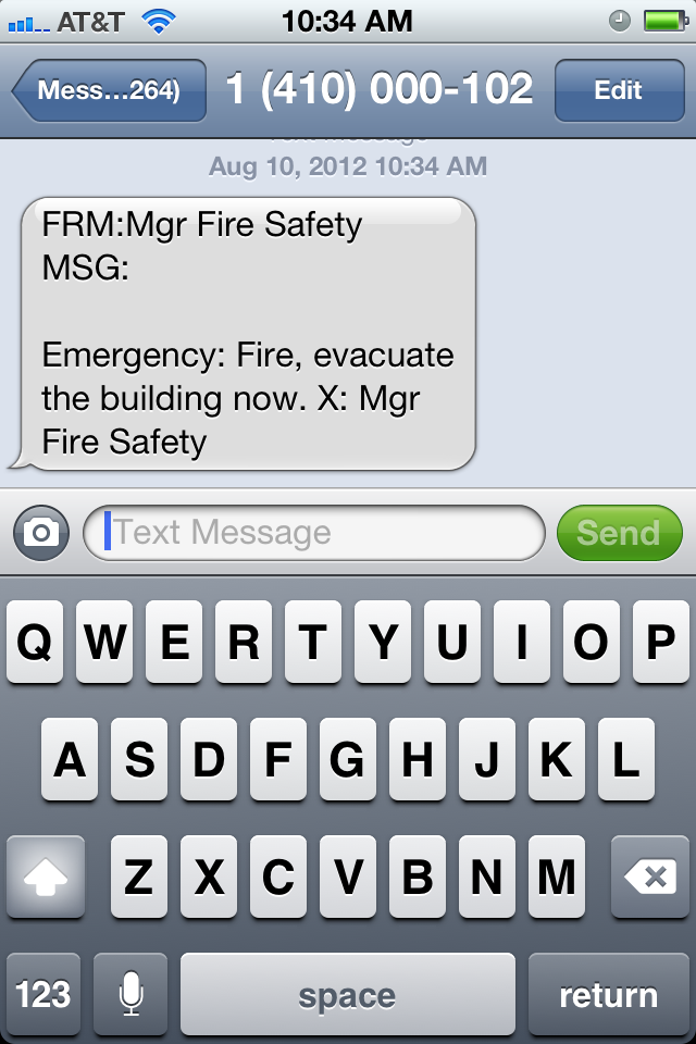 An example fire emergency text message on a smartphone